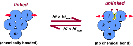 MCA switch